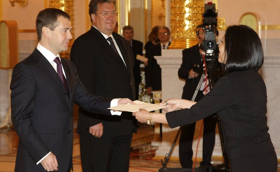 THE KREMLIN, MOSCOW. Presentation by foreign ambassadors of their letters of credence. Dmitry Medvedev receives a letter of credence from Bolivian Ambassador Maria Luisa Ramos Urzagaste.